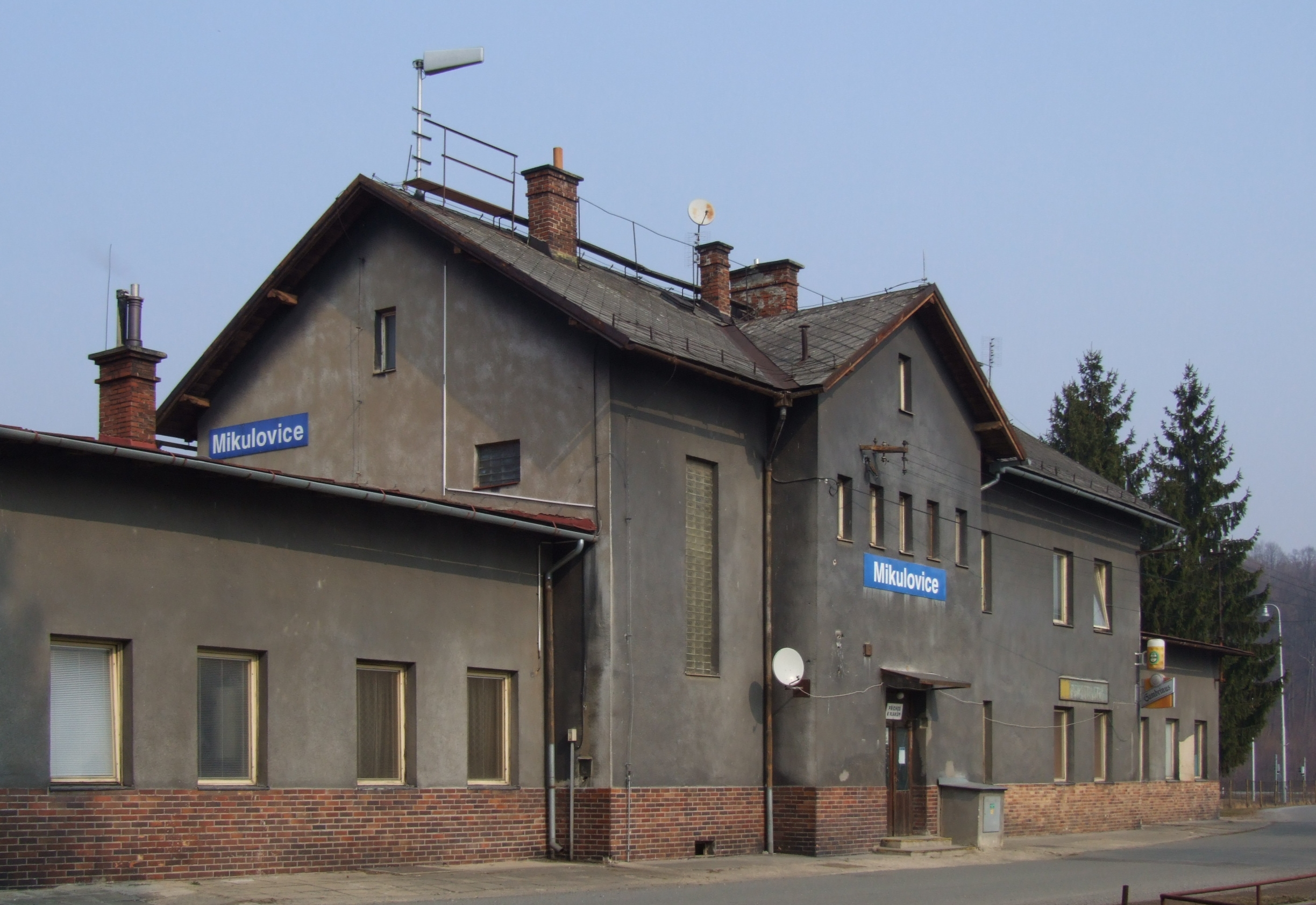 Train station in Mikulovice, Czech Silesia